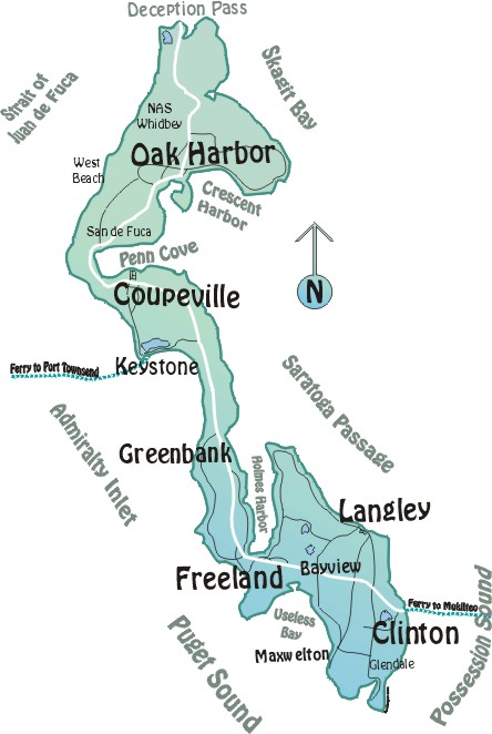 Map of Whidbey Island — in Island County, Washington. (using CorelDraw)